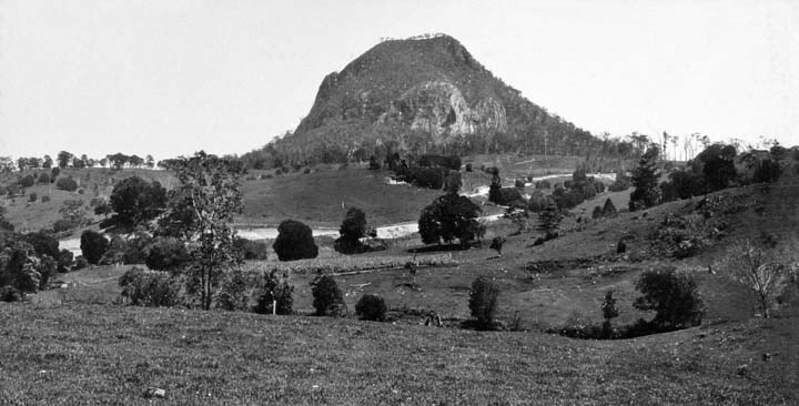 Skyring Creek Road, Pomona, looking towards Mount Cooroora.